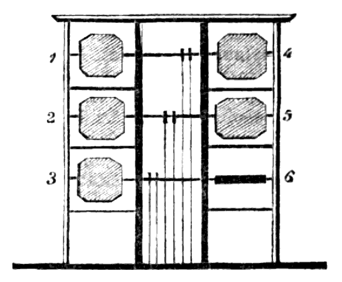 A diagram of the six shutter telegraph invented by Lord George Murray in 1795, and used by the British Admiralty to communicate from London to the English coast from then until 1816. For more about this system, and it's references.